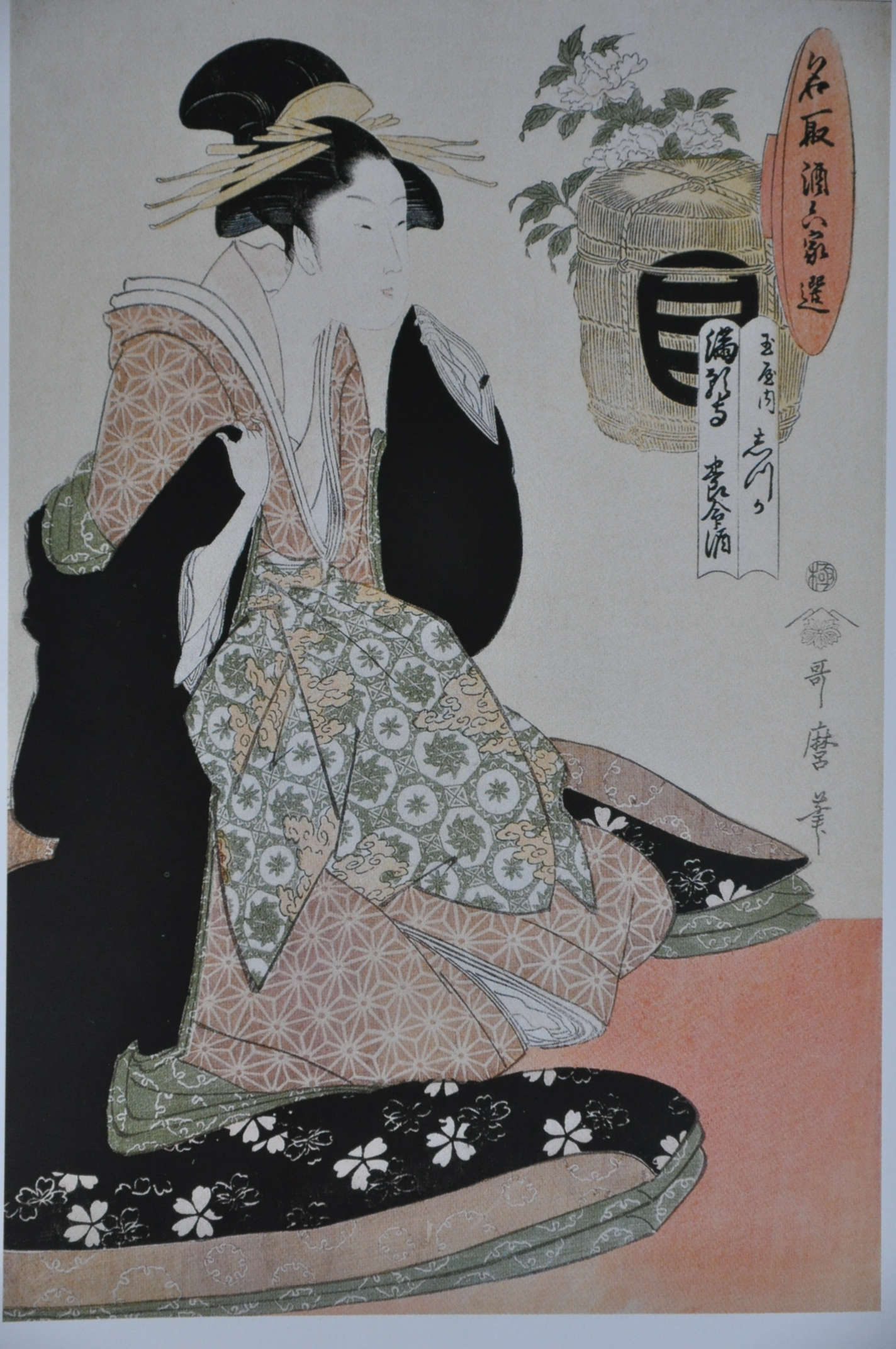 Ôban nishiki-e by Utamaro, associating a famous sake brand (written on the sake barrel at right) and a famous courtesan. One out of a series of six such prints, all associating famous sake brands and glamorous courtesans.